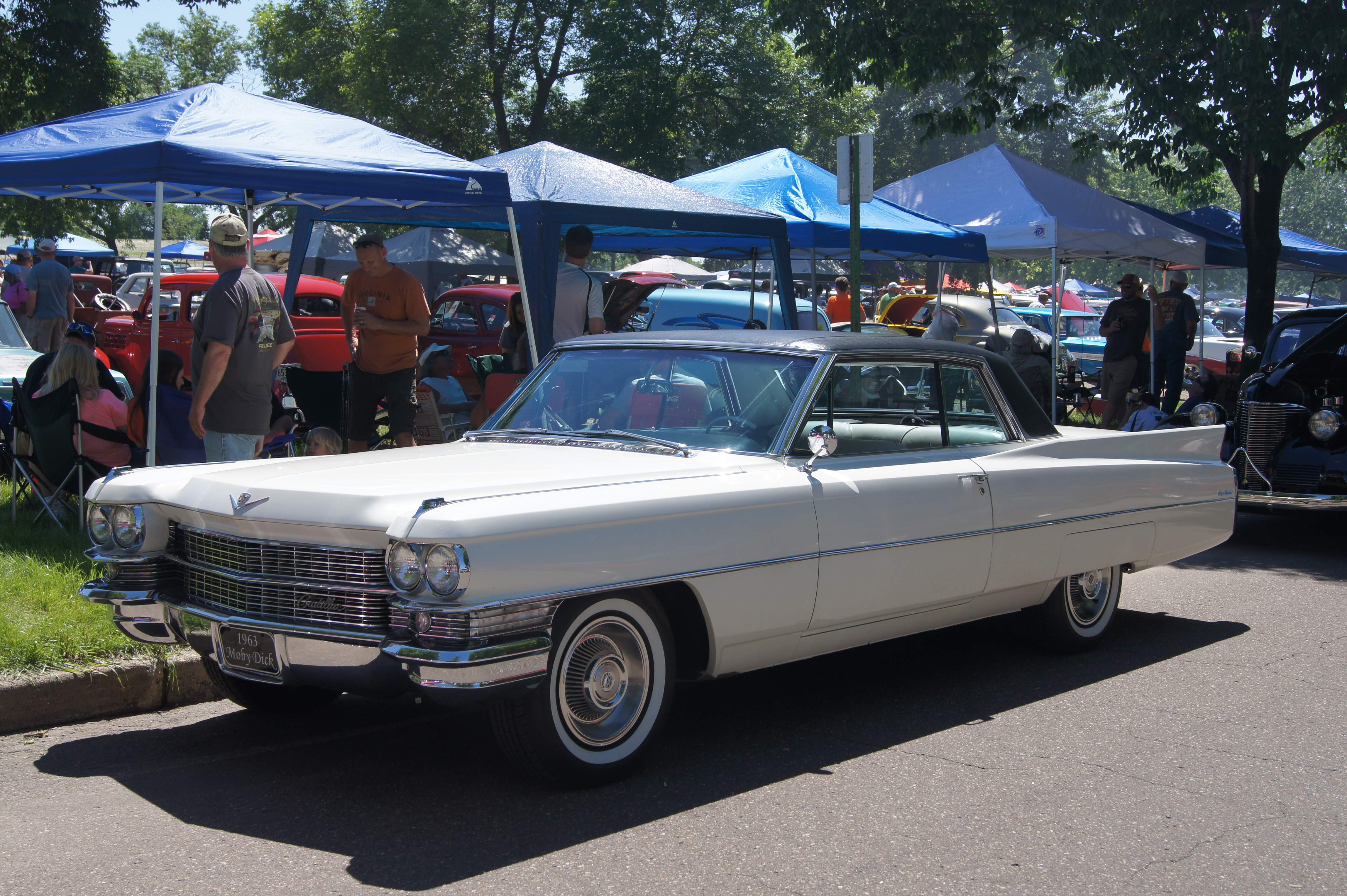 MSRA “BACK TO THE 50′s” 41st Annual June 20-22, 2014 State Fairgrounds St. Paul Minnesota More Car Pictures